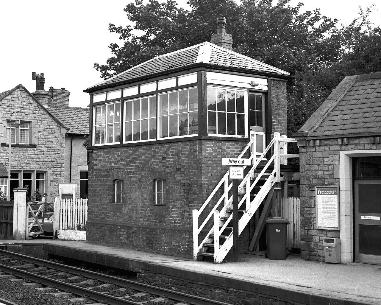 Bromley Cross Station signal box, a Yardley Type 1 design built for the Lancashire and Yorkshire Railway. Sunday 30th August 1987